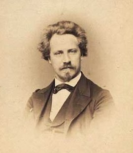 Johan Carl Neumann (1833-1891), Danish marine painter